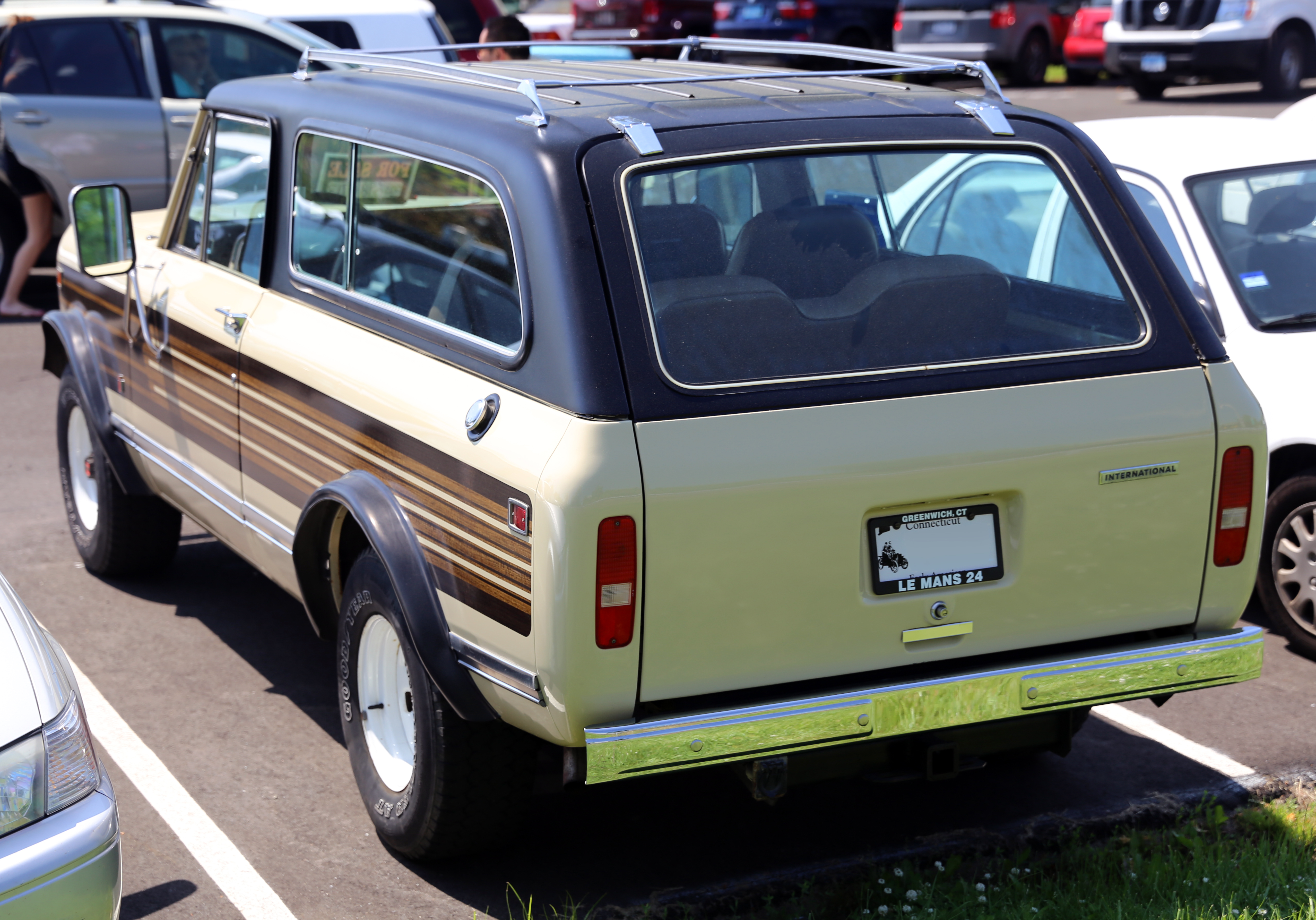 1976-1980 IH Scout II Traveller, with the third row of seats. In the parking lot of the 2013 Greenwich Concours d'Elegance...